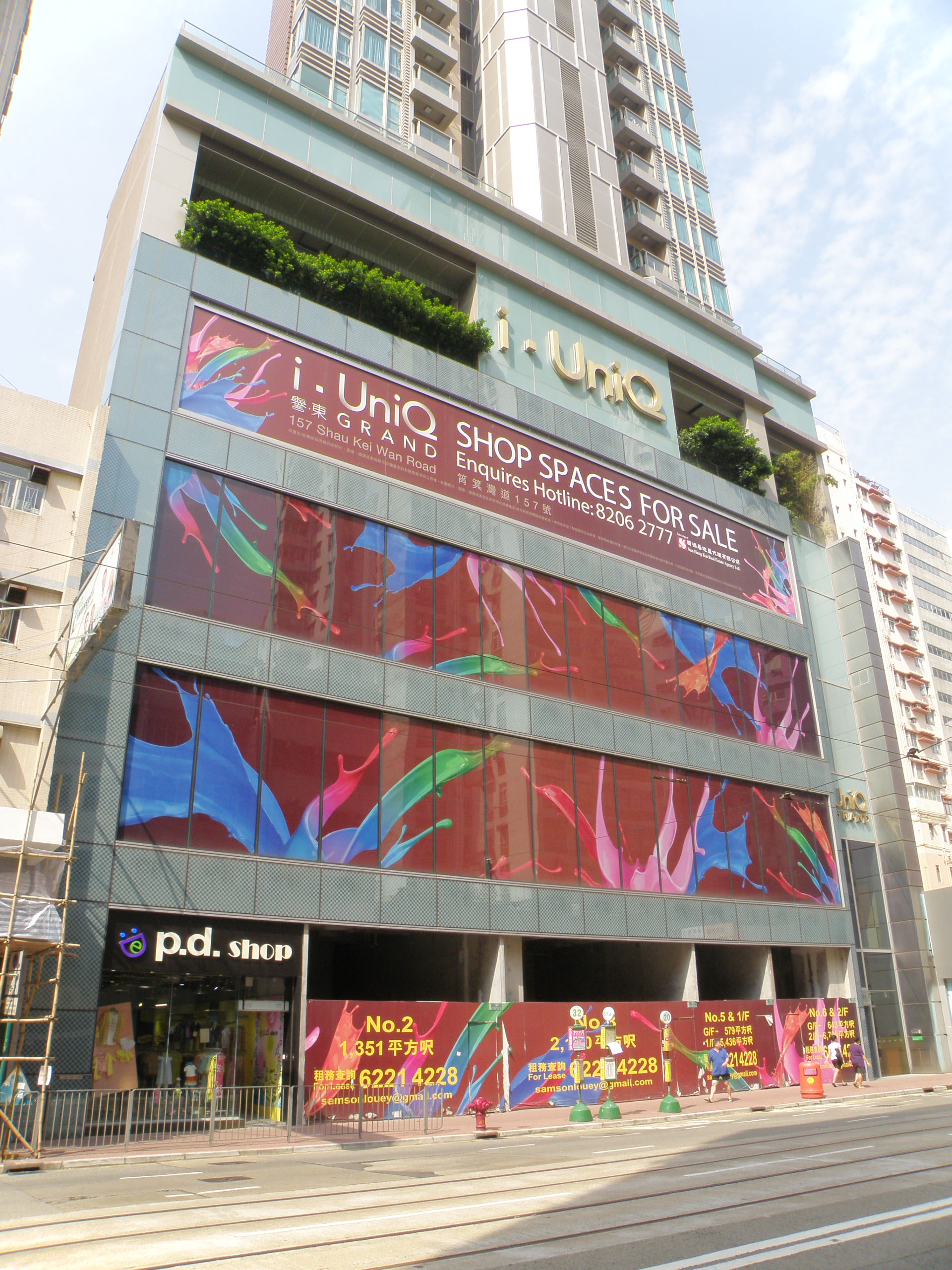 I·UniQ Grand in Sai Wan Ho, Hong Kong.